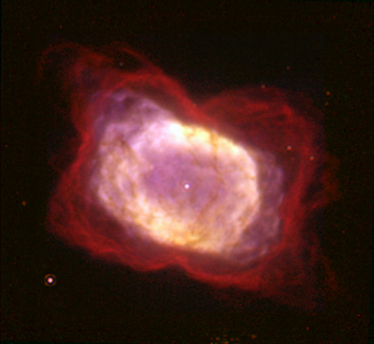 The Hubble Space Telescope's Near Infrared Camera and Multi-Object Spectrometer (NICMOS) has captured a glimpse of a brief stage in the burnout of NGC 7027, a medium-mass star like our sun. The infrared image (on the left) shows a young planetary nebula in a state of rapid transition. This image alone reveals important new information. When astronomers combine this photo with an earlier image taken in visible light, they have a more complete picture of the final stages of star life. NGC 7027 is going through spectacular death throes as it evolves into what astronomers call a "planetary nebula." The term planetary nebula came about not because of any real association with planets, but because in early telescopes these objects resembled the disks of planets. This image is composed of three exposures, one from the Wide Field and Planetary Camera 2 (WFPC2) and two from NICMOS. The blue represents the WFPC2 image; the green and red, NICMOS exposures. The white is emission from the hot gas surrounding the central star; the red and pink represent emission from cool molecular hydrogen gas. In effect, the colors represent the three layers in the material ejected by the dying star. Each layer depicts a change in temperature, beginning with a hot, bright central region, continuing with a thin boundary zone where molecular hydrogen gas is glowing and being destroyed, and ending with a cool, blue outer region of molecular gas and dust.